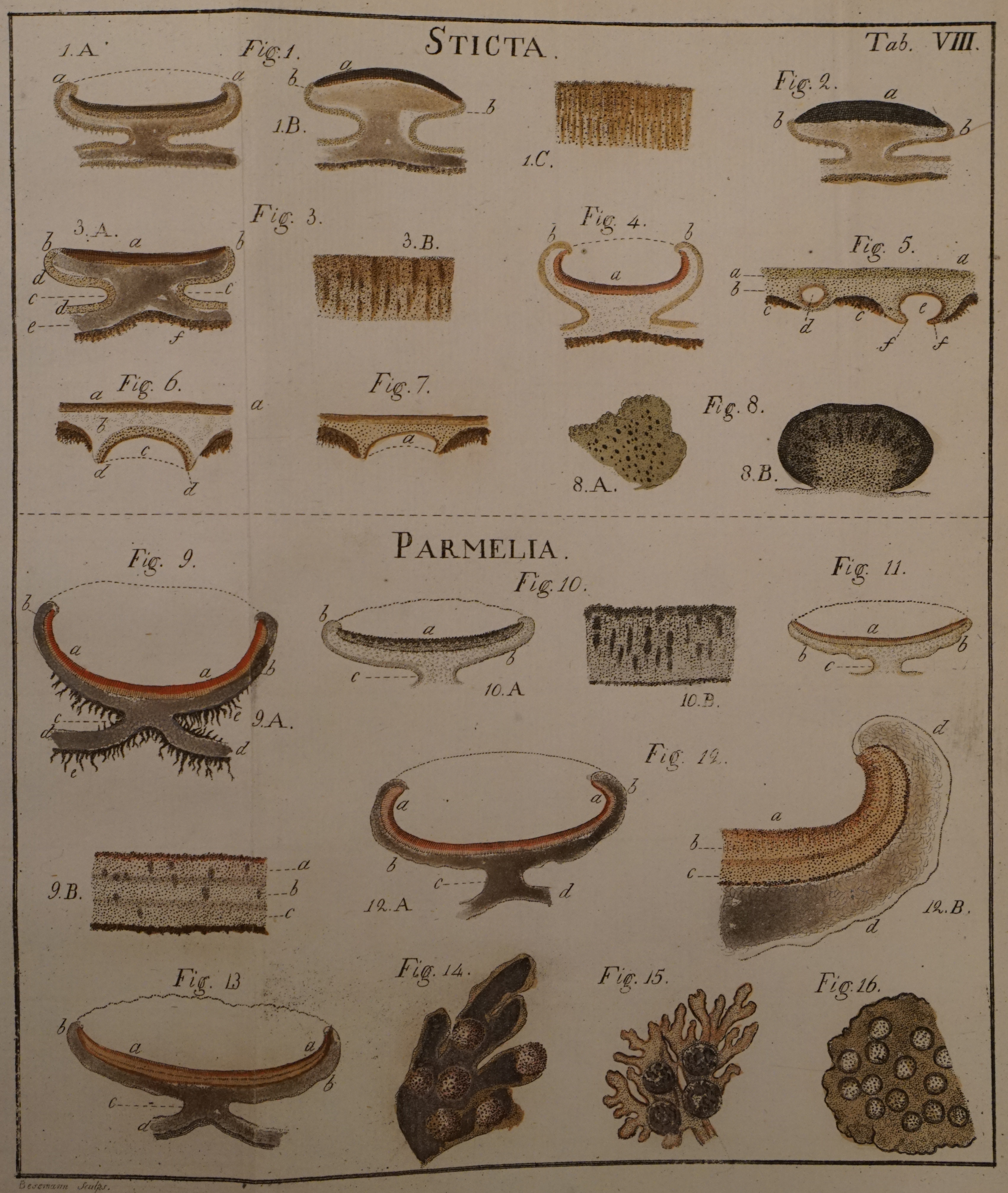 an illistration of lichen from Lichenographia Universalis.